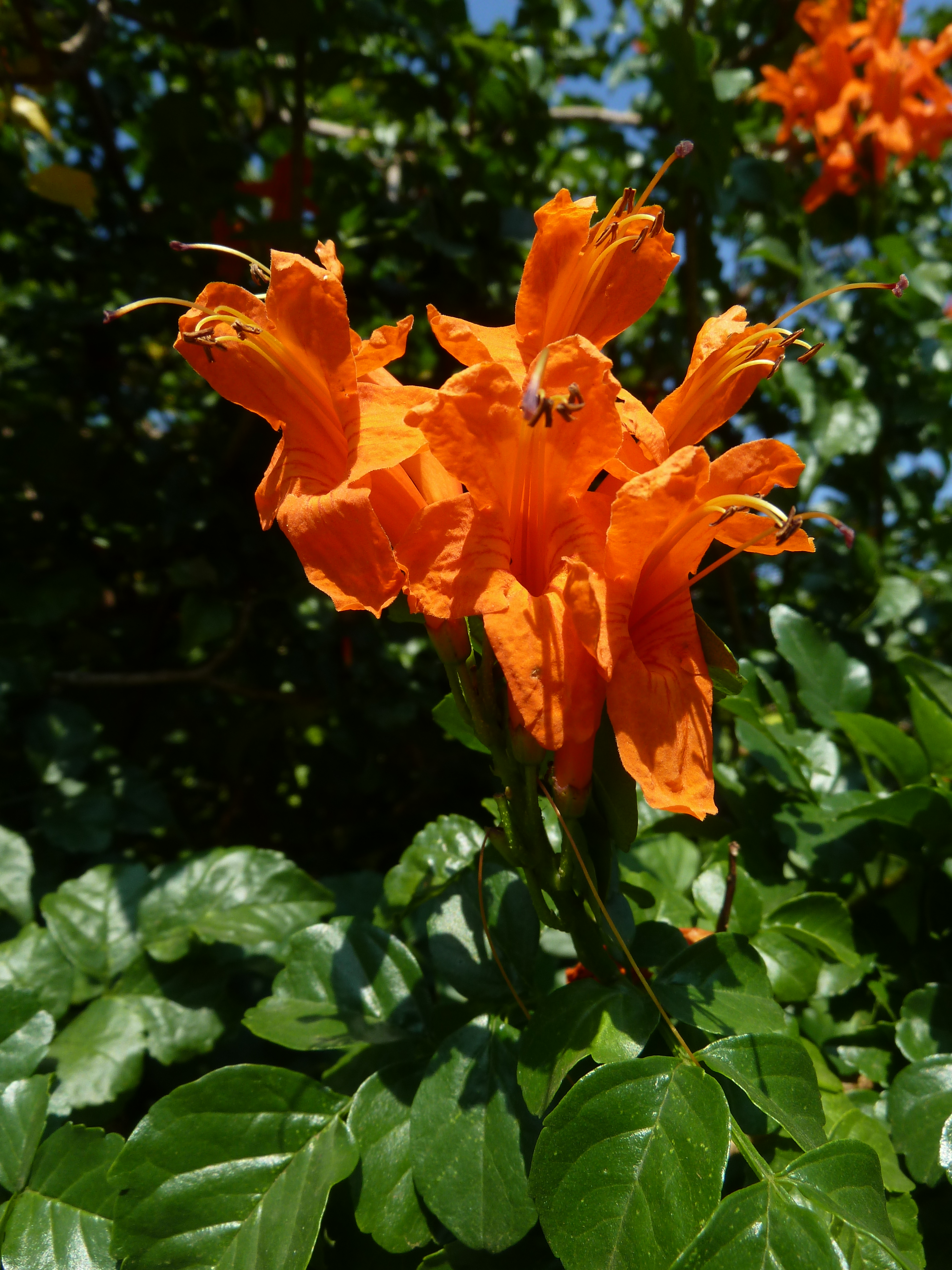 Flowers of a Cape honeysuckle in the gardens of the Union Buildings, South Africa